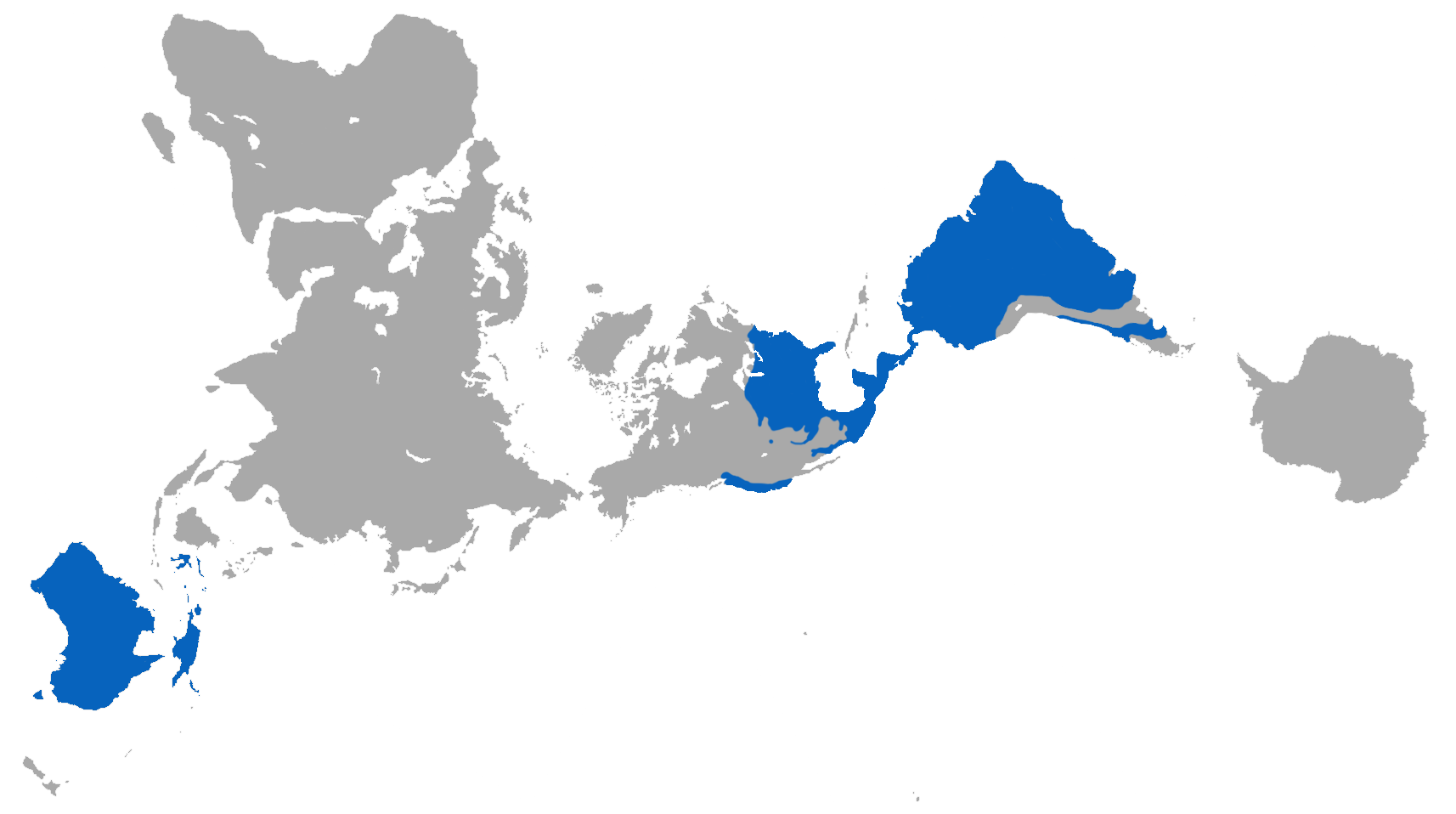 A dymaxion map of the present day distribution of Marsupials across the earth’s continents. Spatial data from IUCN (2013). Additional data from Kanda et al. (2006)[1] and Gardner & Sunquist (2003).[2]